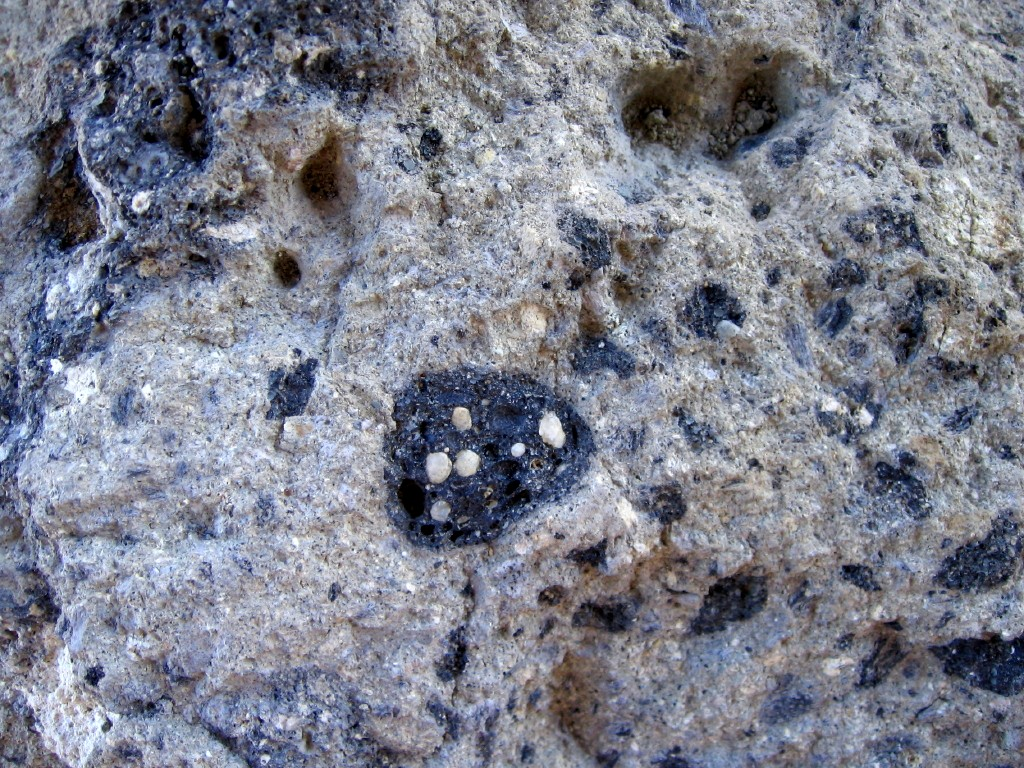 Suevite from the Otting quarry in the Ries crater. Melt glasses (black) and fragments of sediments (bright) are embedded in the fine grained, gray matrix. The section shown here is about 8 cm wide.